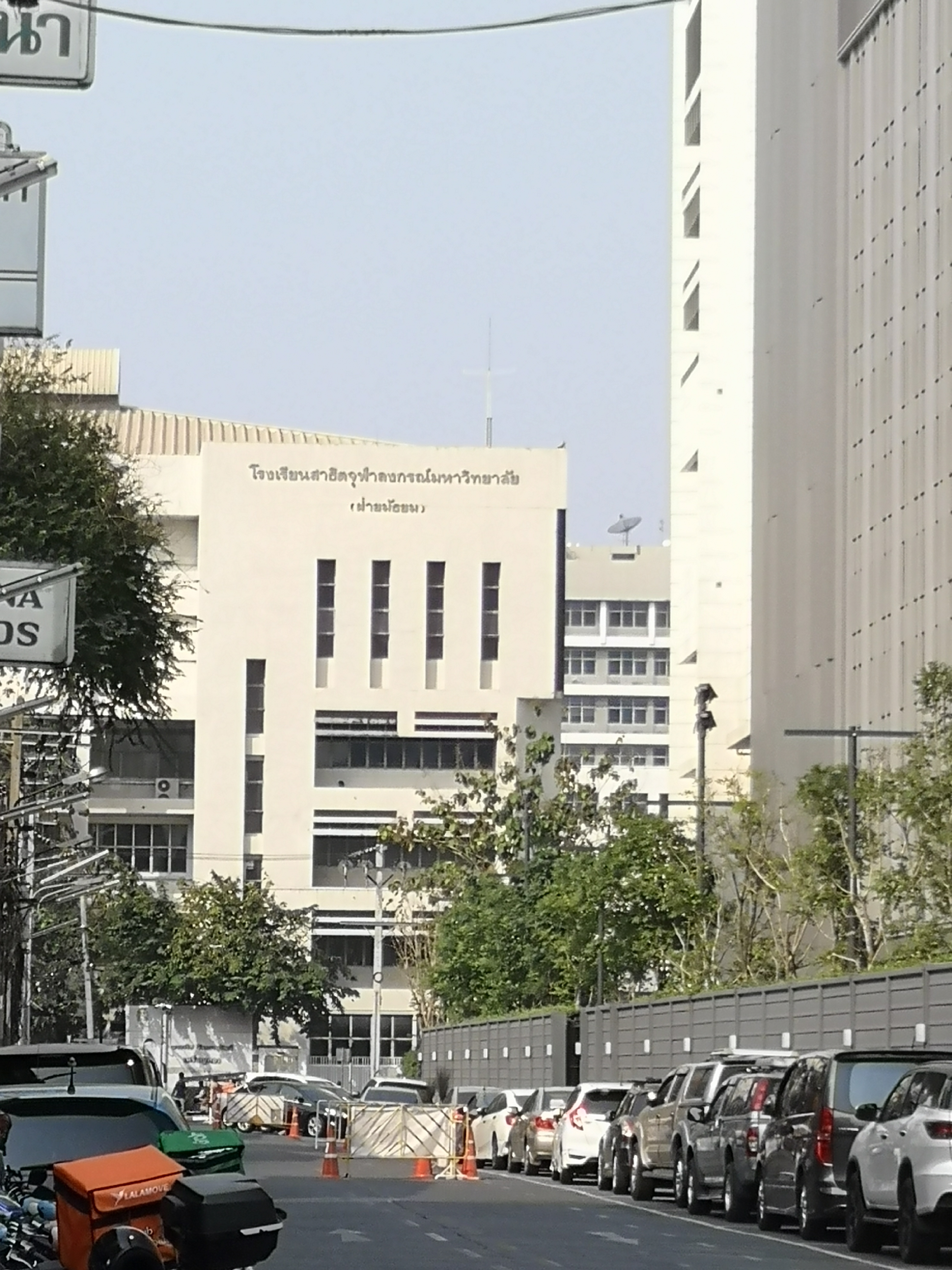 Chulalongkorn University Demonstration School